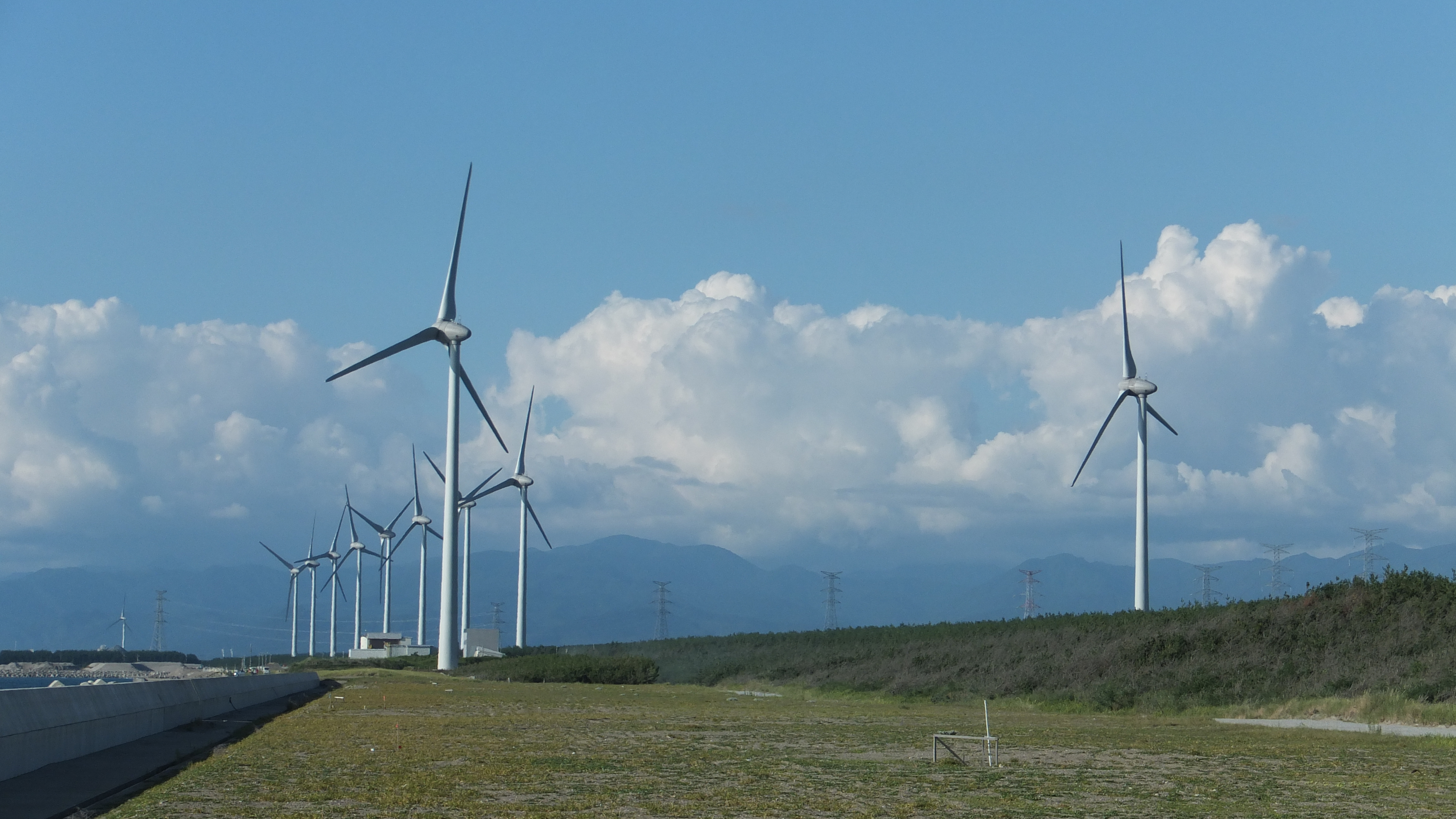 能代市浅内浜から風車群を望む。かつては海水浴場だったが、護岸工事が進み海に近づく事は出来なくなった。